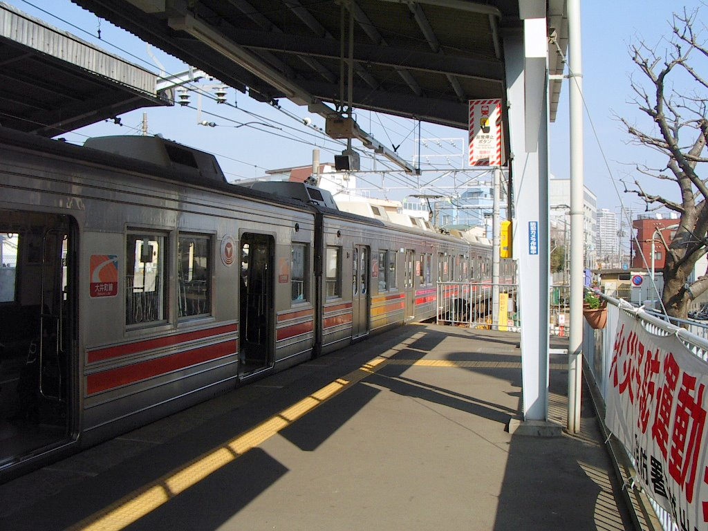 Togoshikouen station on Tokyu Ooimachi line.